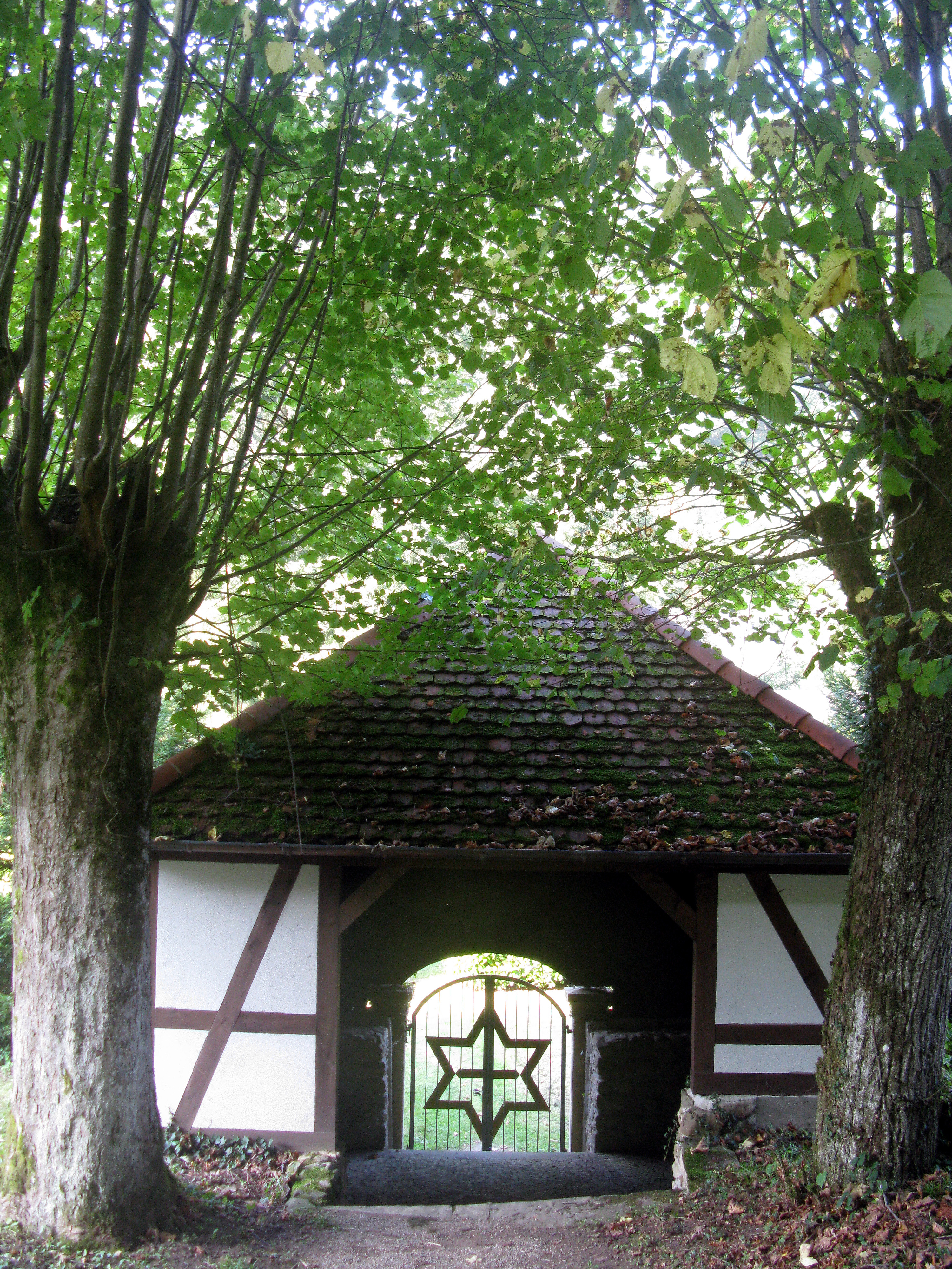 Sulzburg, Jewish cemetery, entrance